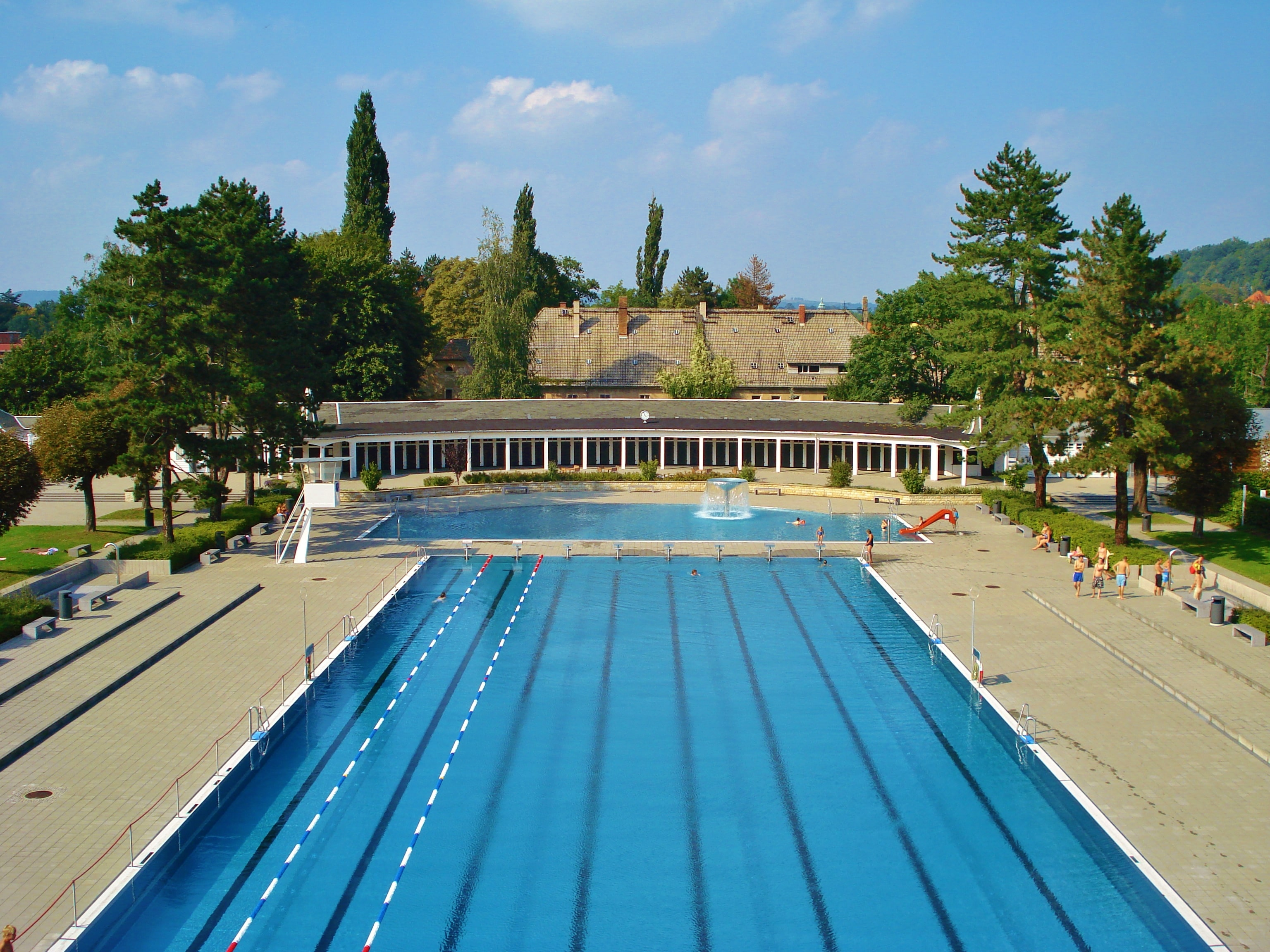 The "Geibeltbad" in Pirna(Saxony).